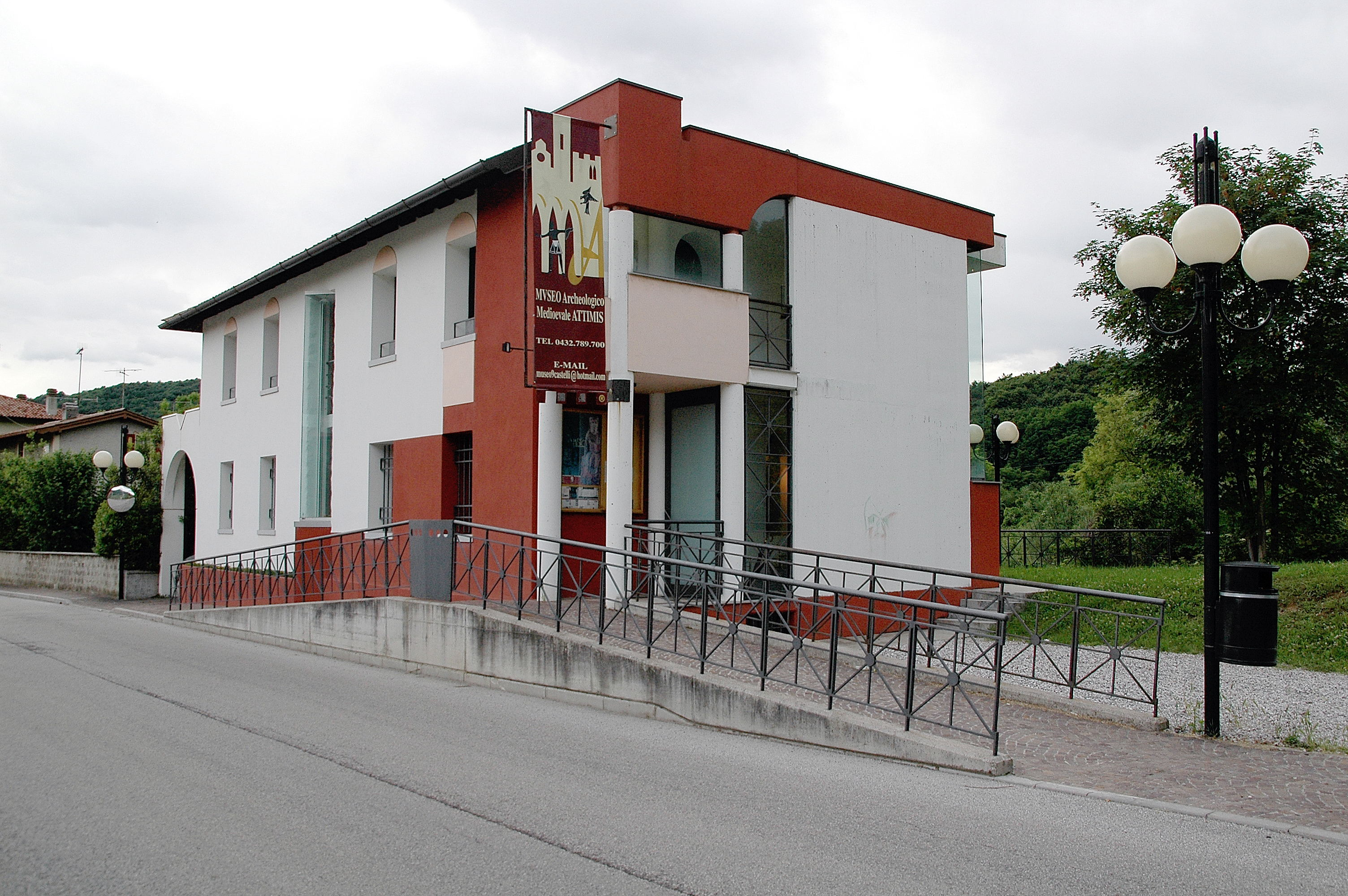 Archeological Medieval Museum at Attimis, Province of Udine, Italy